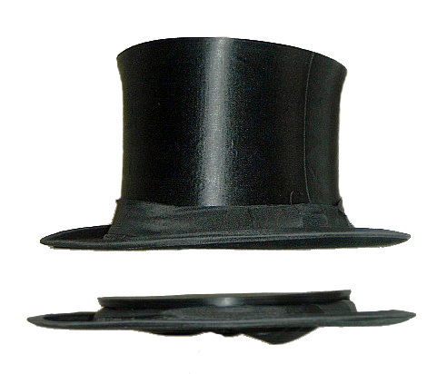 Top hat from about 1920 (top) expanded ready to wear, {bottom} collapsed